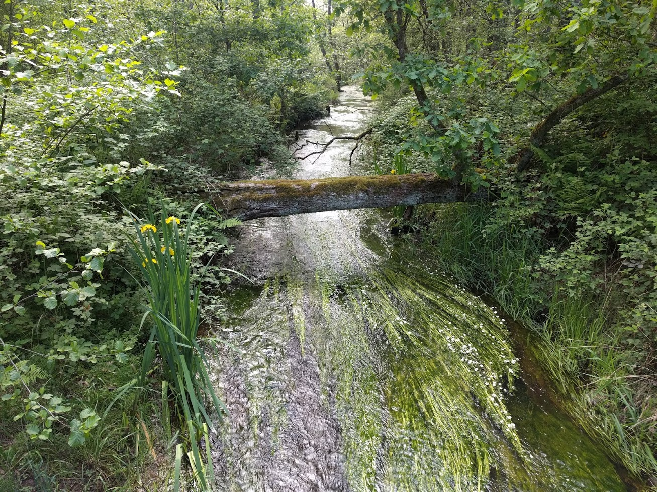 The Rothenbach in Sturzelbronn, France